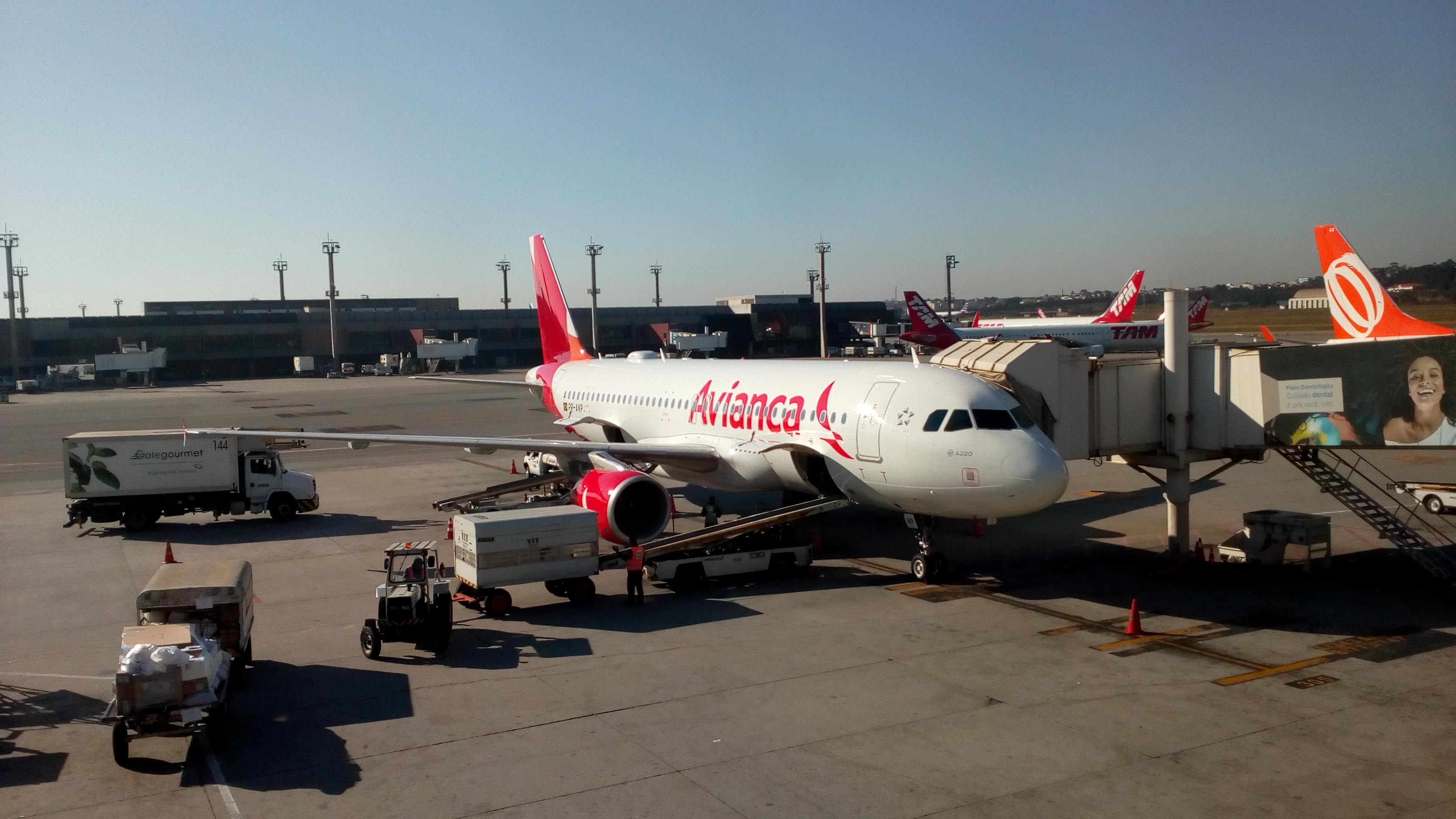 Avianca Brazil's Airbus A320 at SBGR-GRU